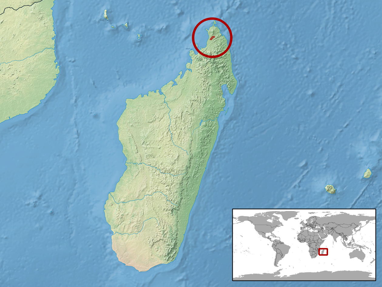 geographic distribution of Lygodactylus expectatus (Native: Madagascar)